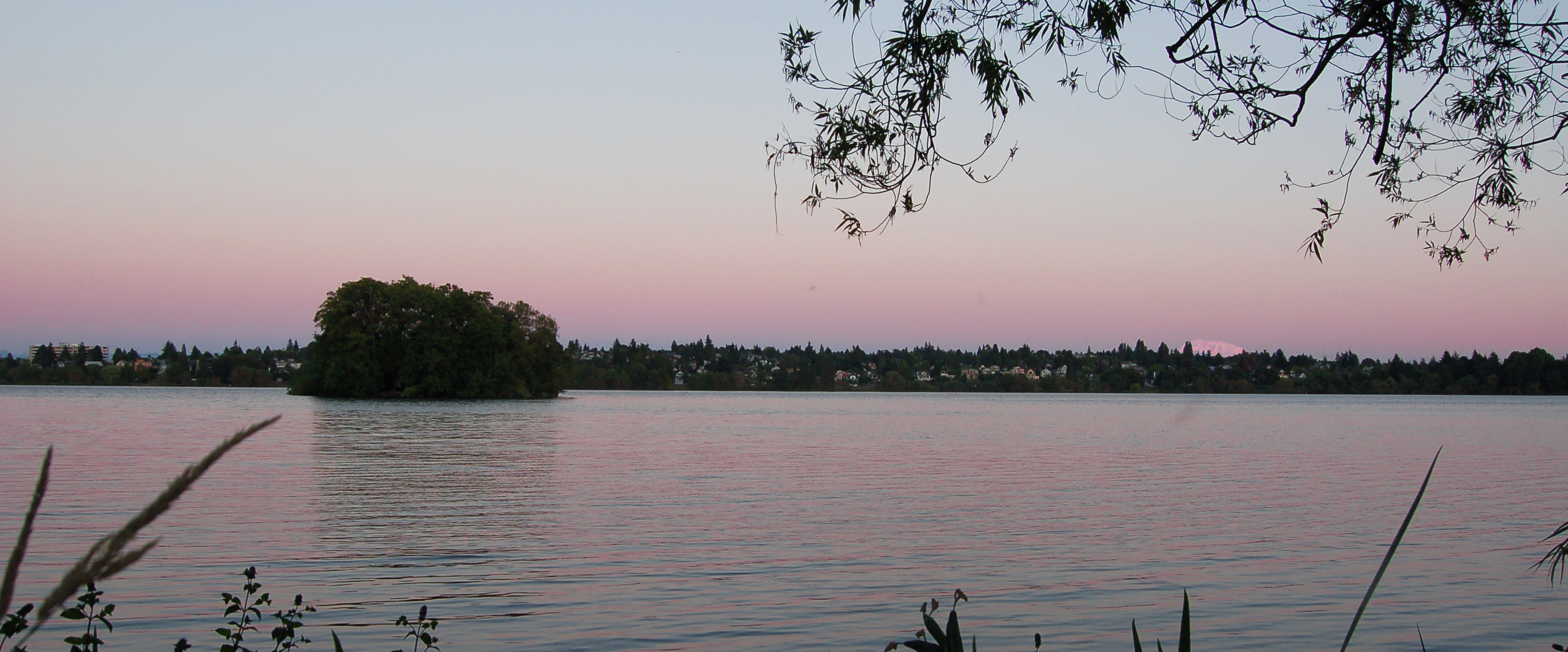 Belt of Venus photographed over Green Lake in Seattle, Washington. 4392-m (14,411-ft) Mt Rainier, on the horizon, catches the last rays of the setting sun. Like the rising full moon, it signals the east.